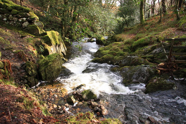 River Mardle The river just downstream of Chalk Ford.